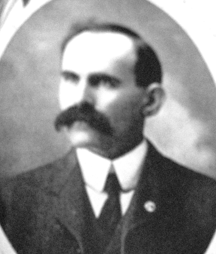 Woodson T. Slater yearbook picture in 1903